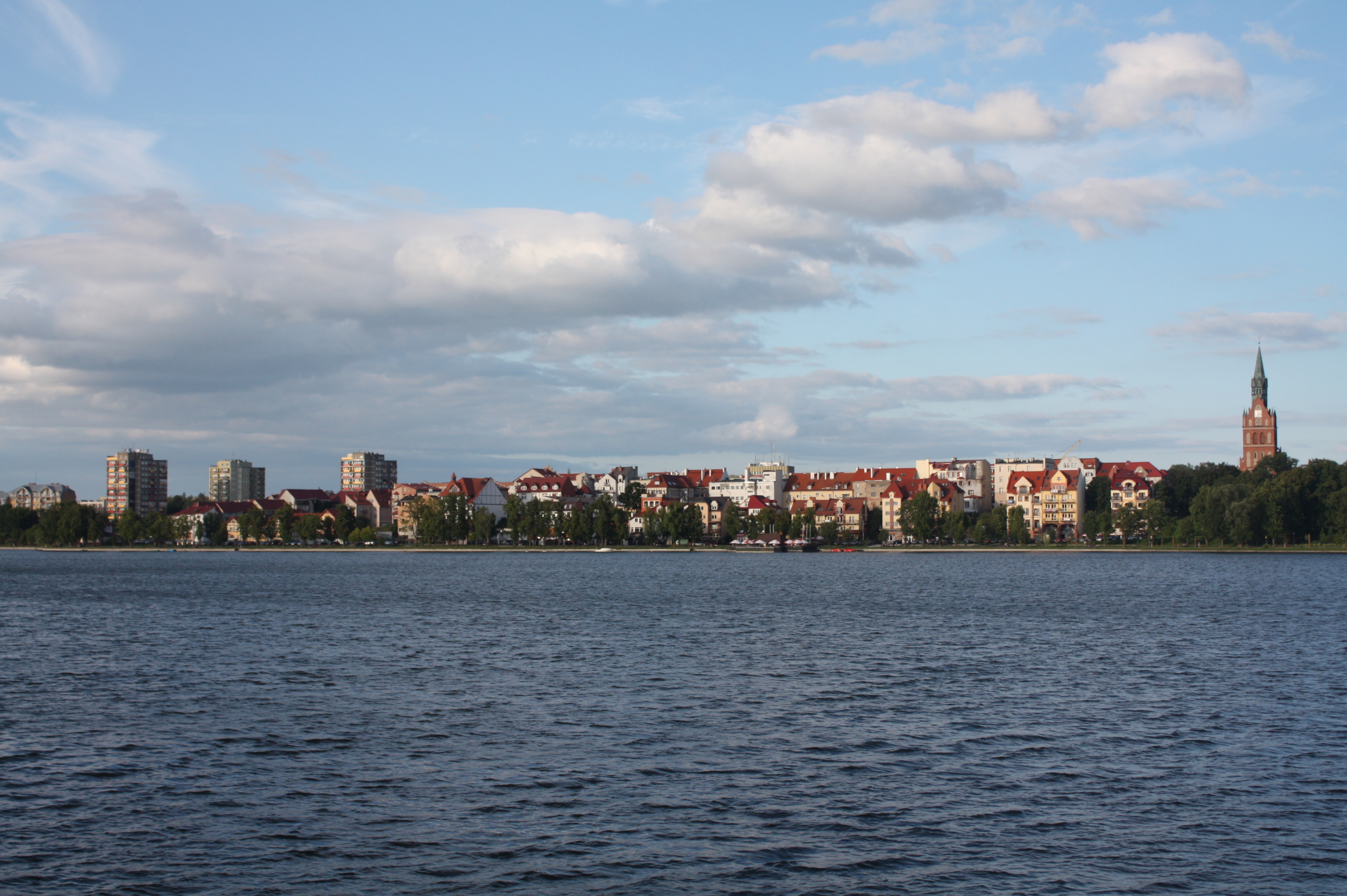 This photo of Warmian-Masurian Voivodeship was taken during Wikiexpedition 2012 set up by Wikimedia Polska Association. You can see all photographs in category Wikiekspedycja 2012. The making of this document was supported by Wikimedia Polska.